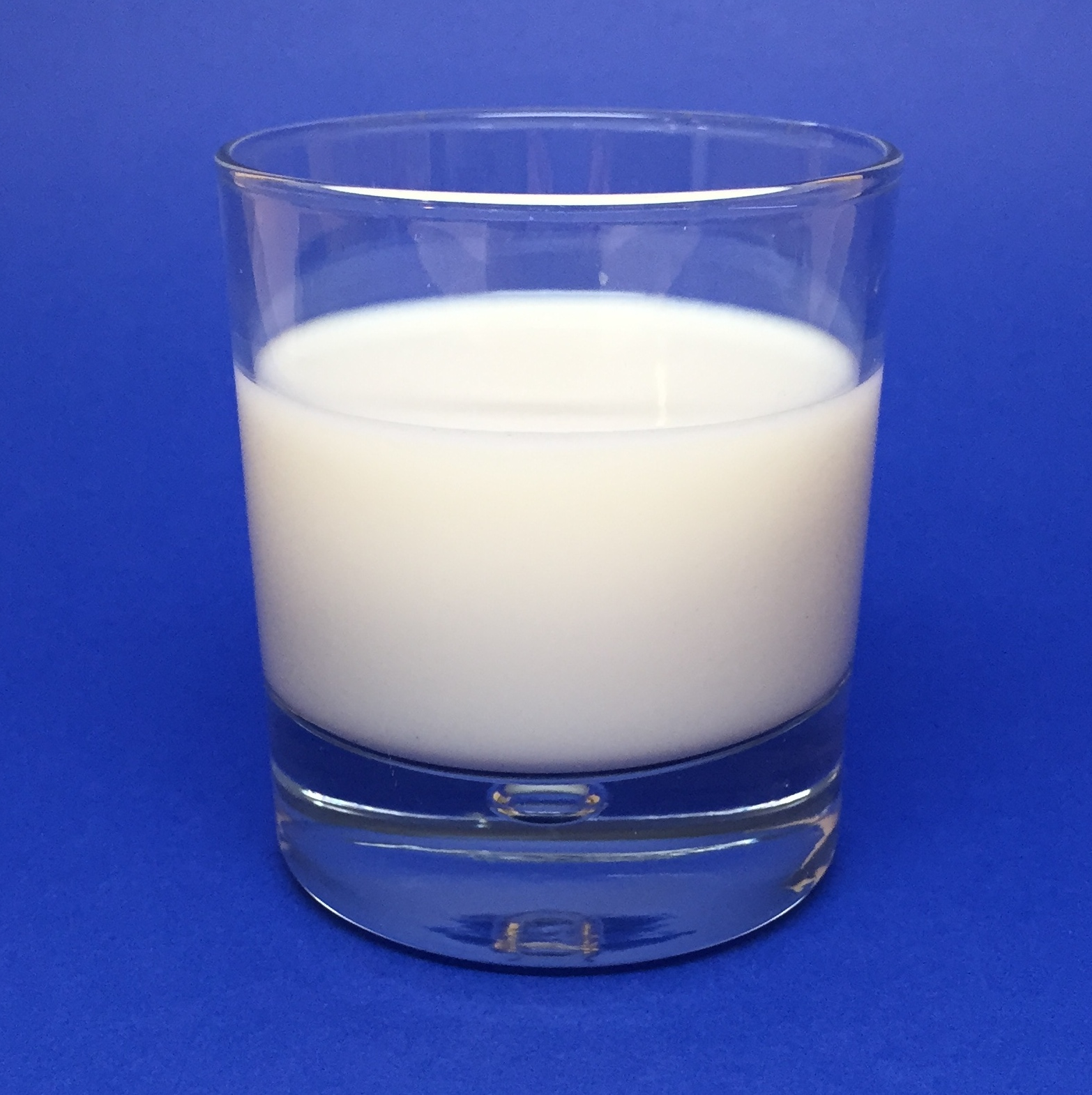 A glass of milk. Credit: NIAID